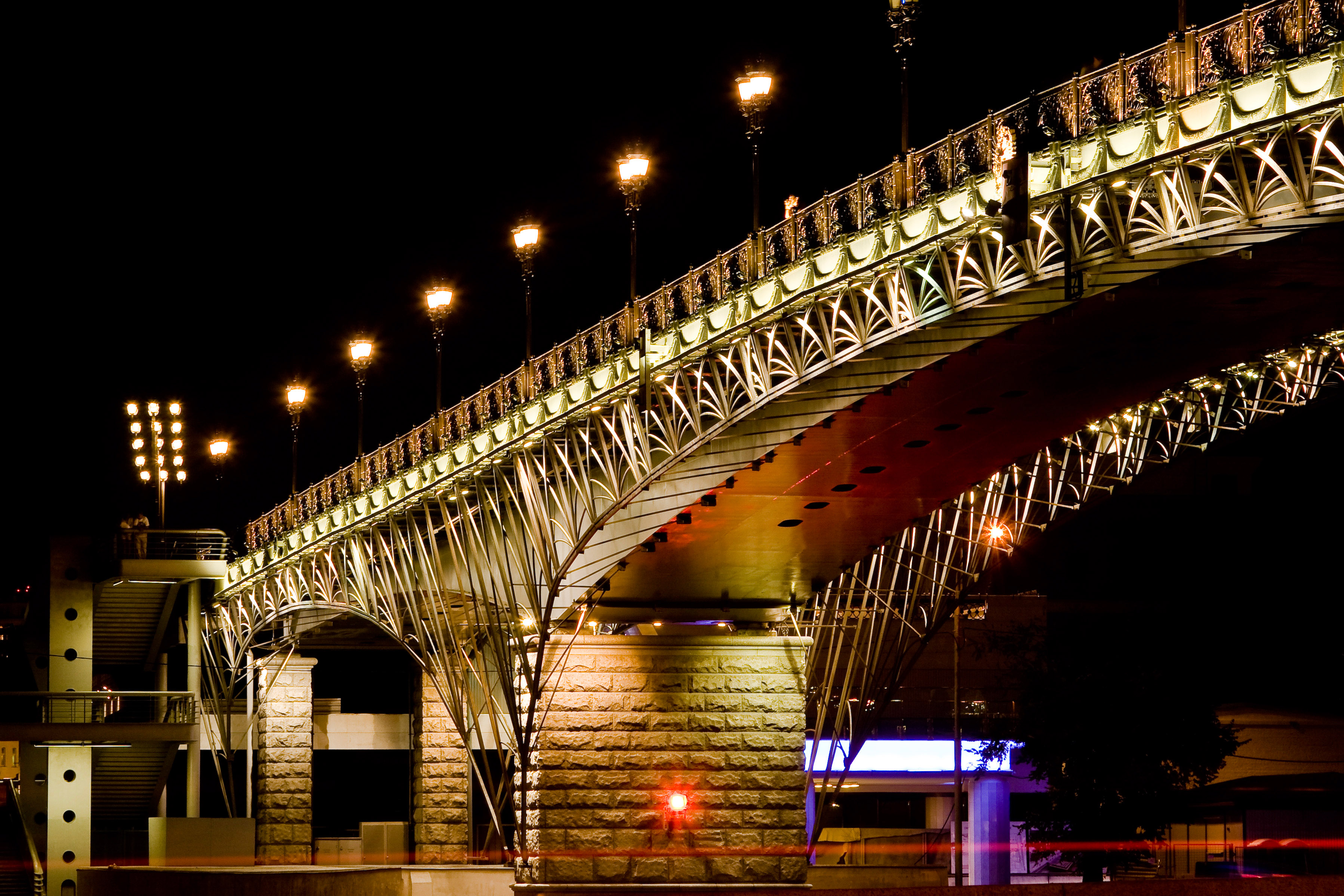 The Patriarchy Bridge at night - view from Prechistenskaya wharf.